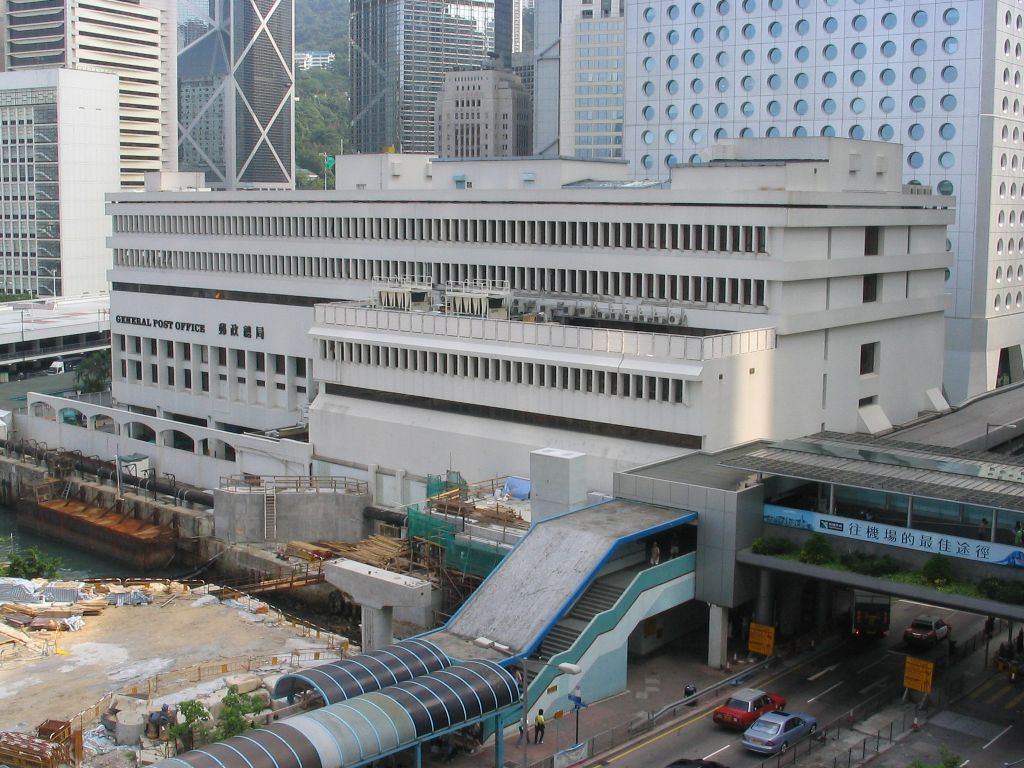 Hong Kong General Post Office 中文（香港）: 香港郵政總局